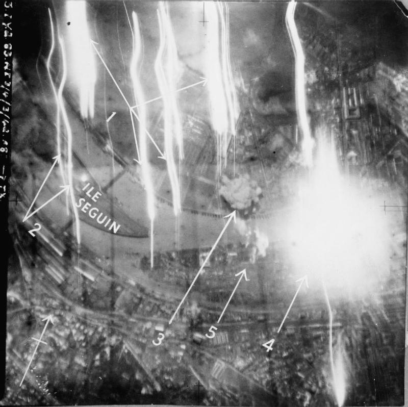 Royal Air Force Bomber Command, 1942-1945. Annotated vertical taken during the major night raid on the Renault works at Boulogne-Billancourt, west of the centre of Paris. The largest number of aircraft sent to a single target so far - 235 - were despatched, dropping a record tonnage of bombs. A significant development was the mass use of flares to illuminate the target ('1' and '2'). Smoke and flame from exploding bombs can be seen on the factory ('3'), and also on the Ile St Germain ('4' and '5'). Only one aircraft, a Vickers Wellington, was lost during the raid, which was judged to be a great success.